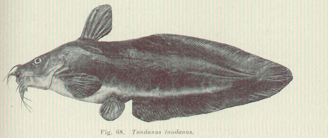 Tandanus tandanus Subject: Catfishes, Tandanus Tag: Fish